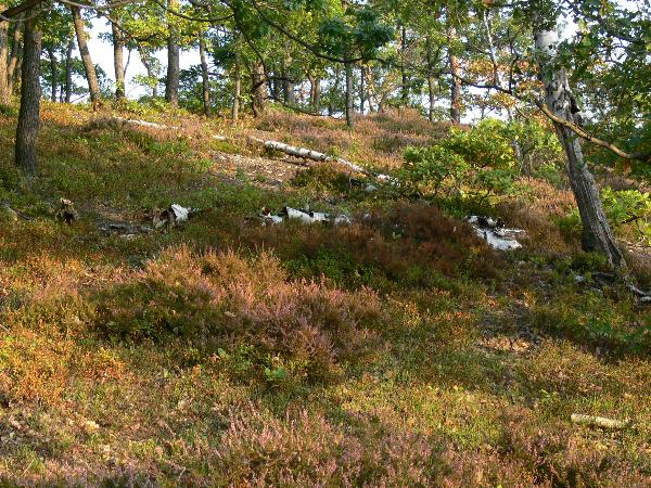 Natural monument Sance, Prague, CZ